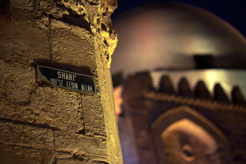 Al Mu'iz Le Din Allah Street takes its name from the Fatimid Caliph who conquered Cairo in AD969, and is the former grand thoroughfare of medieval Cairo, once chock-a-block with storytellers, entertainers and food stalls. The street has been totally redone, from new pavements on up to the tips of the minarets of the monuments along its length.